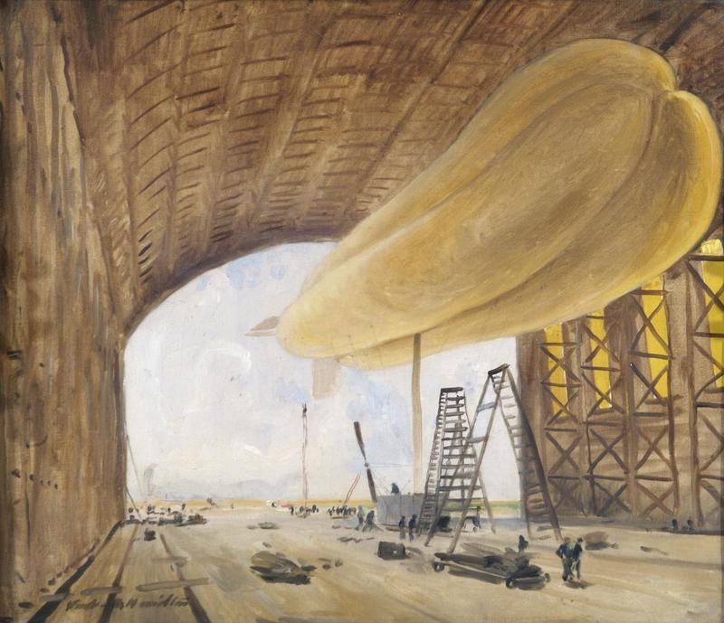 Painting of HMA 3 Astra-Torres airship in its shed at RNAS Kingsnorth by Vereker Hamilton. Hamilton was the father-in-law of the commanding officer at Kingsnorth.